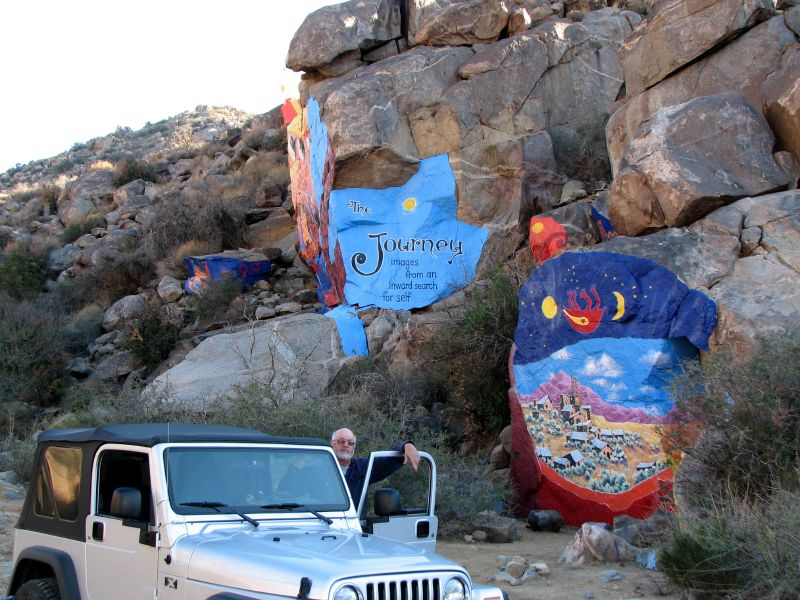 The Chloride Murals